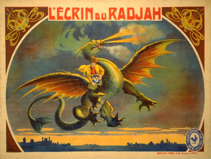 Poster designed by Candido Faria for 'L'écrin du Radjah', a film directed by Gaston Velle and produced by Pathé Frères in 1906